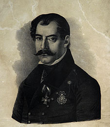 Litography of Avram Petronijević (1791-1852), Historical Museum of Serbia